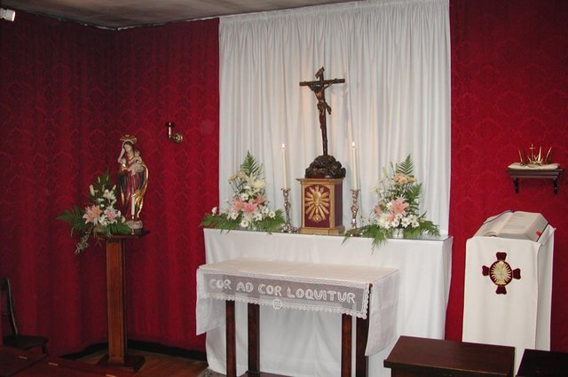 Cardinal Newman's Chapel, Littlemore